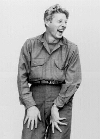 Danny Kaye